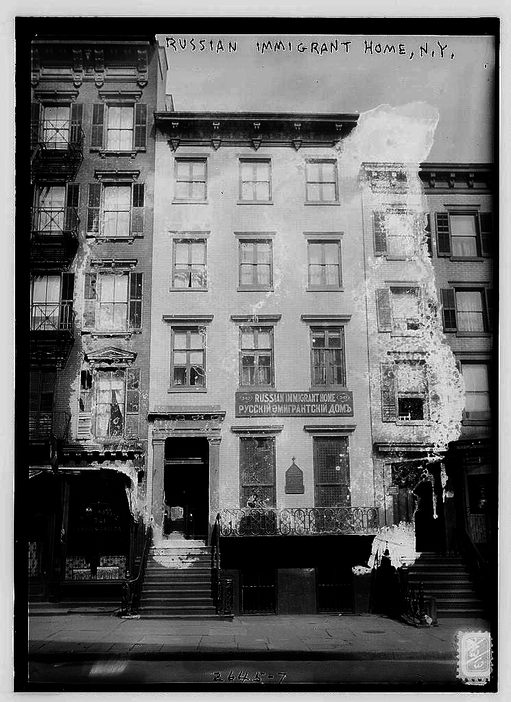 Bain News Service,, publisher. Russian immigrant home, N.Y. [between ca. 1910 and ca. 1915] 1 negative : glass ; 5 x 7 in. or smaller. Notes: Title from data provided by the Bain News Service on the negative. Photo shows the Russian Immigrant home at 347 E 14th St, New York City. (Source: Flickr Commons project, 2009) Forms part of: George Grantham Bain Collection (Library of Congress). Subjects: N.Y. Format: Glass negatives. Repository: Library of Congress, Prints and Photographs Division, Washington, D.C. 20540 USA, General information about the Bain Collection is available at Persistent URL: Call Number: LC-B2- 2645-7